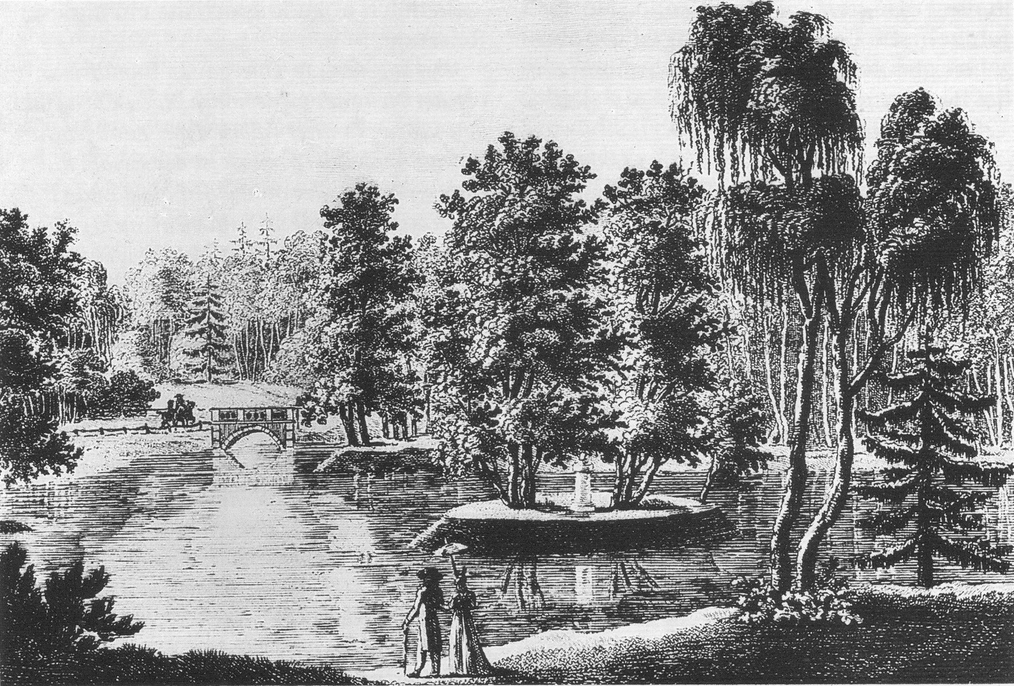 Rouseeau-Insel (Rousseau's Island) in Tiergarten park in Berlin, engraving by Leopold Ludwig Müller